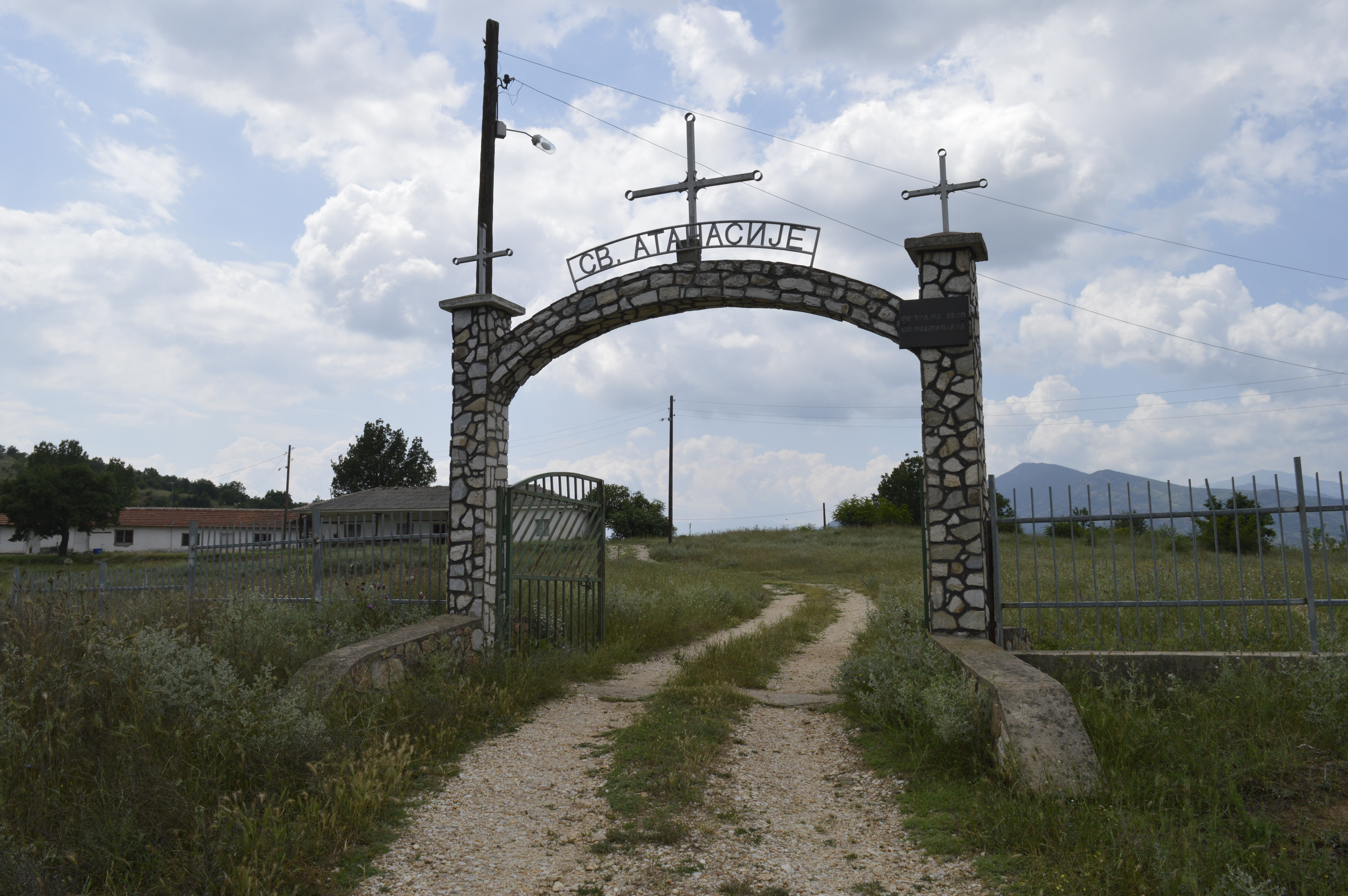 Entry in Izvor Monastery